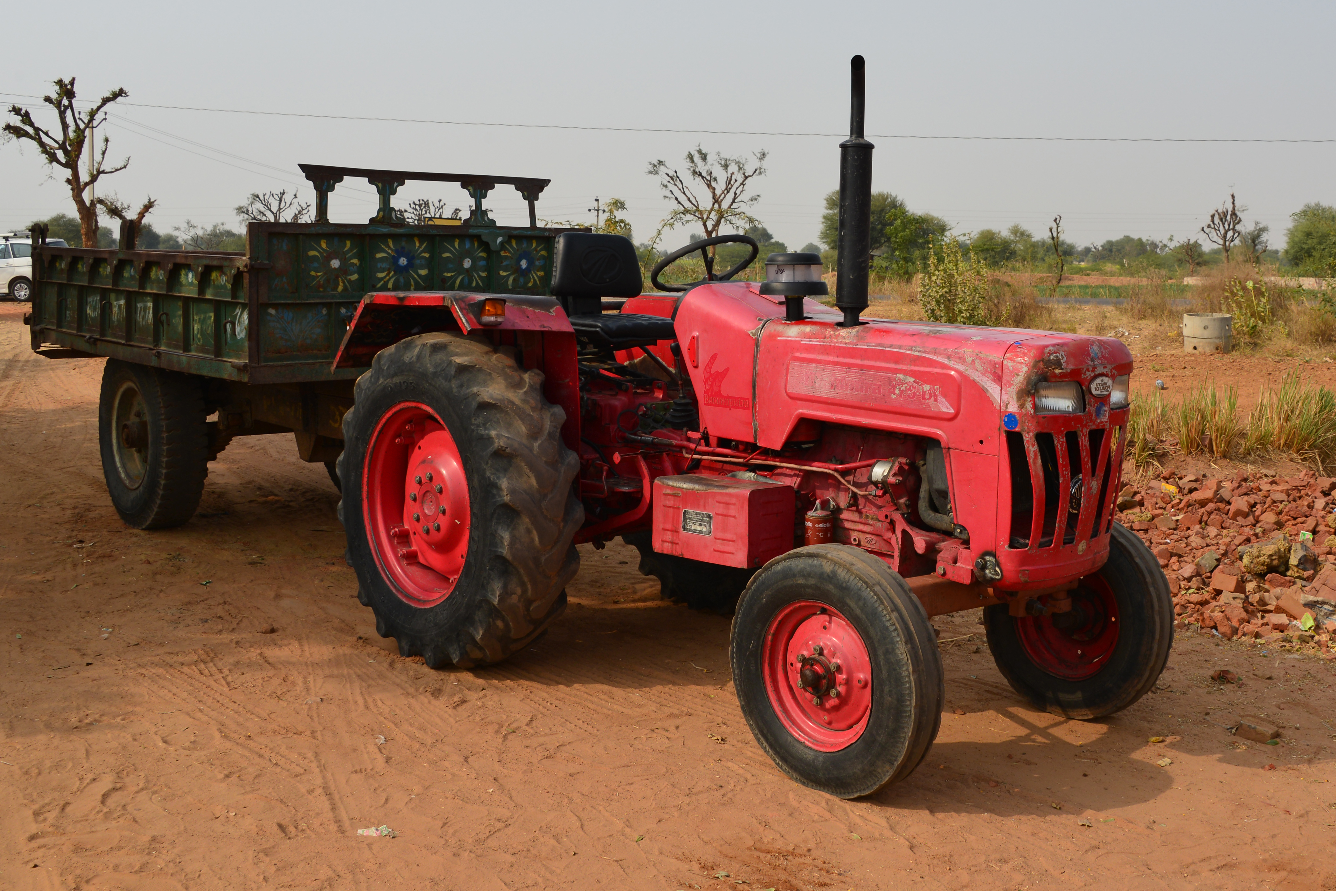 Utsav tractor near Rewari, India